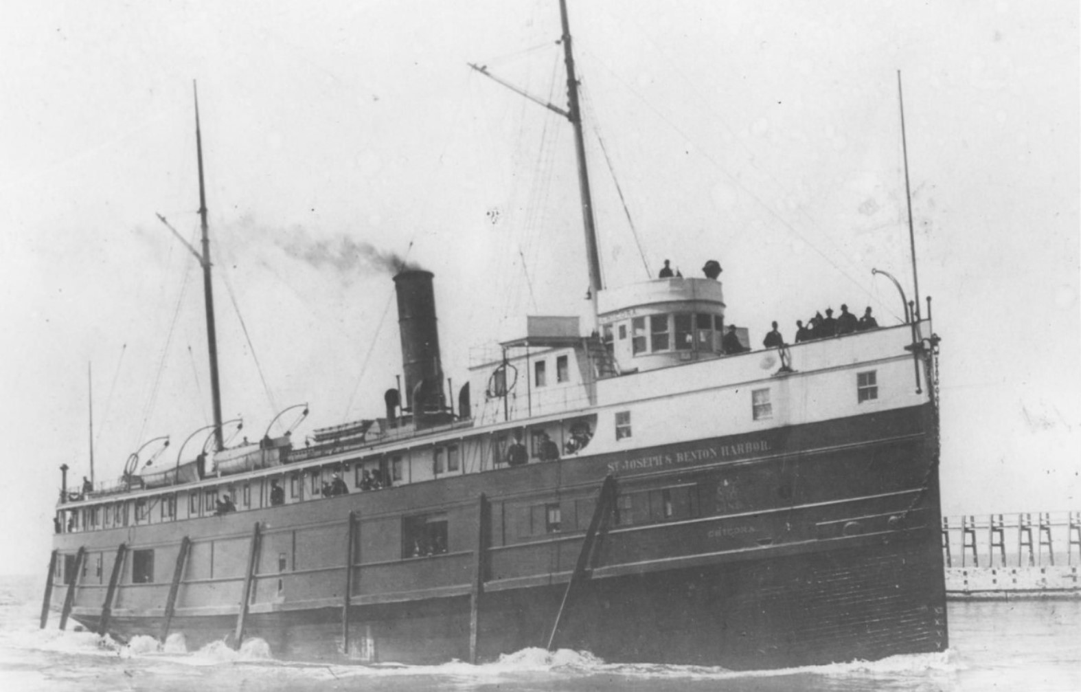 The Chicora prior to her disappearance